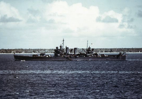 The U.S. Navy light cruiser USS Boise (CL-47) photographed circa in late August 1942, probably at Espiritu Santo, New Hebrides.